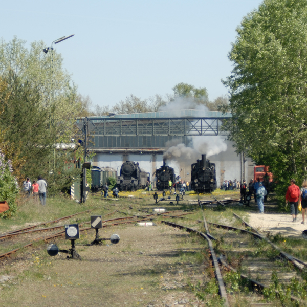 steam locomotives 12.10, 17c 372 and 97.208 at the opening of the ElebnisWeltbahn - Eisenbahnmuseum Strasshof on April 22 2007 - shot by myself